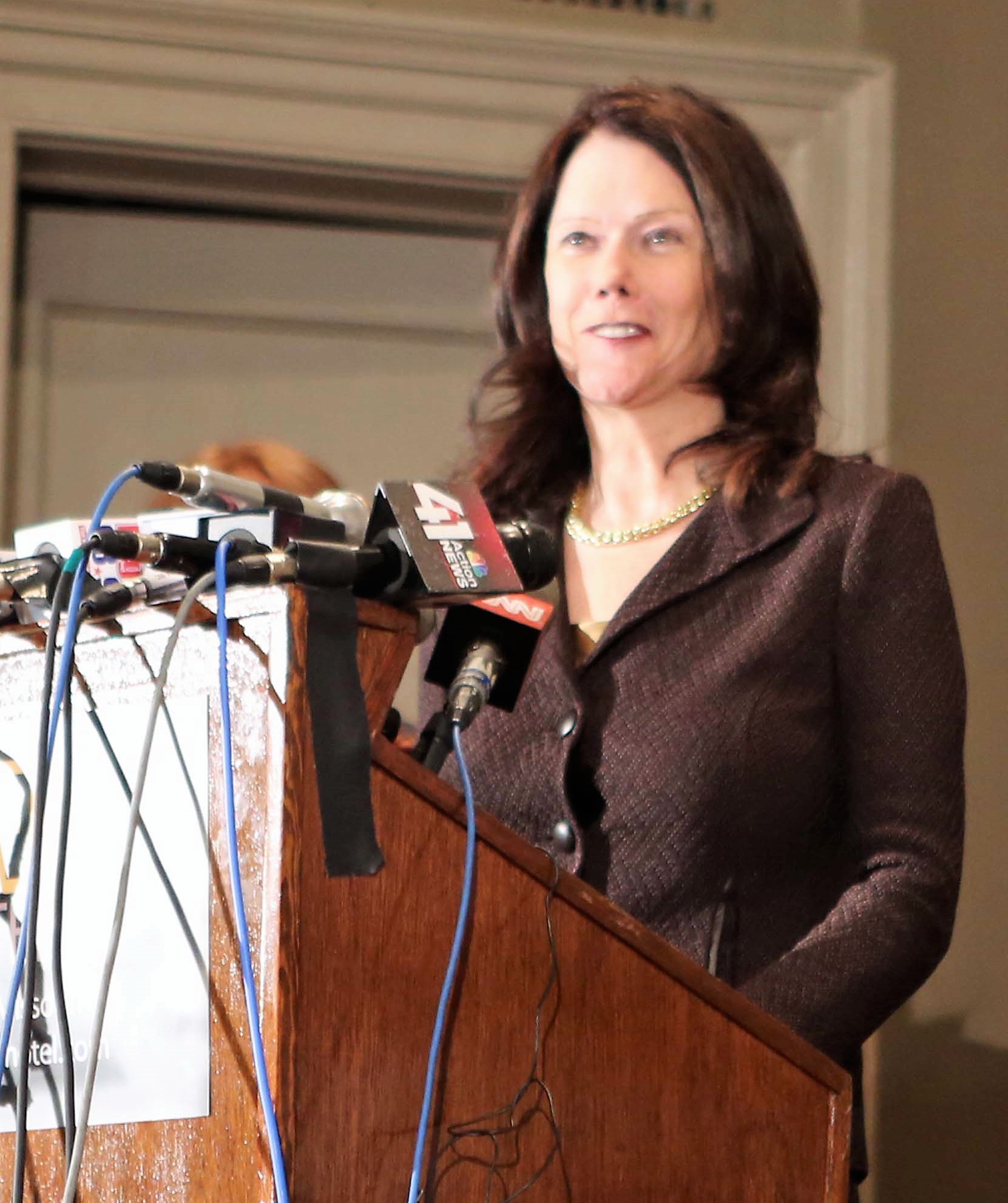 Kathleen Zellner, speaks at the news conference at the Tiger Hotel in Columbia, Mo., Nov. 12, 2013. (KOMU/Haoyang Zhang); Photo has been cropped and slight adjustment to the light.